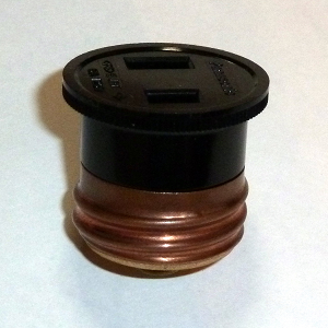 Panasonic Electric Works WH4101.